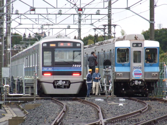 Model 7500 -Left Side- & Model 7000,Hokuso Railway,Japan 25,March 2007 Lover of Romance take a photograph.